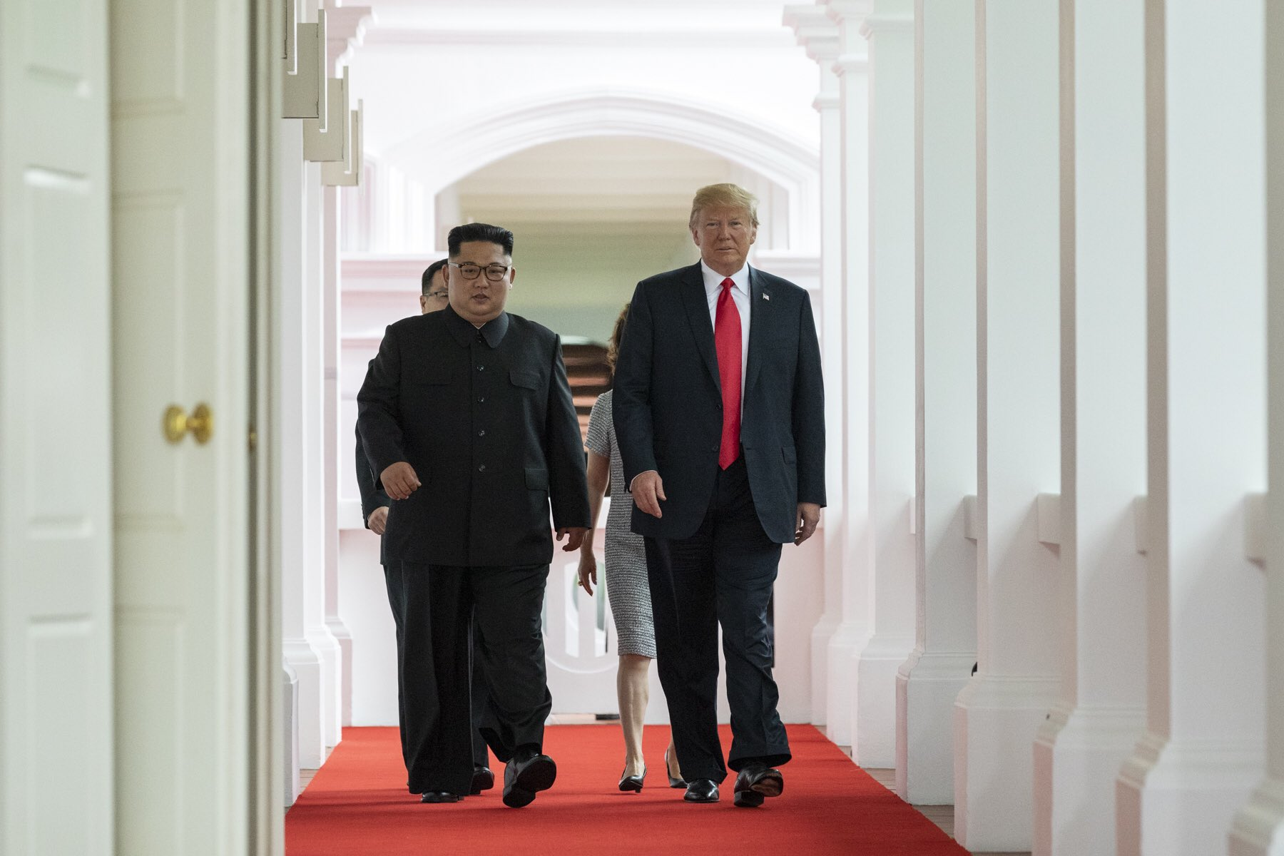 Donald Trump and Kim Jong-un walk together to their 1-on-1 meeting.